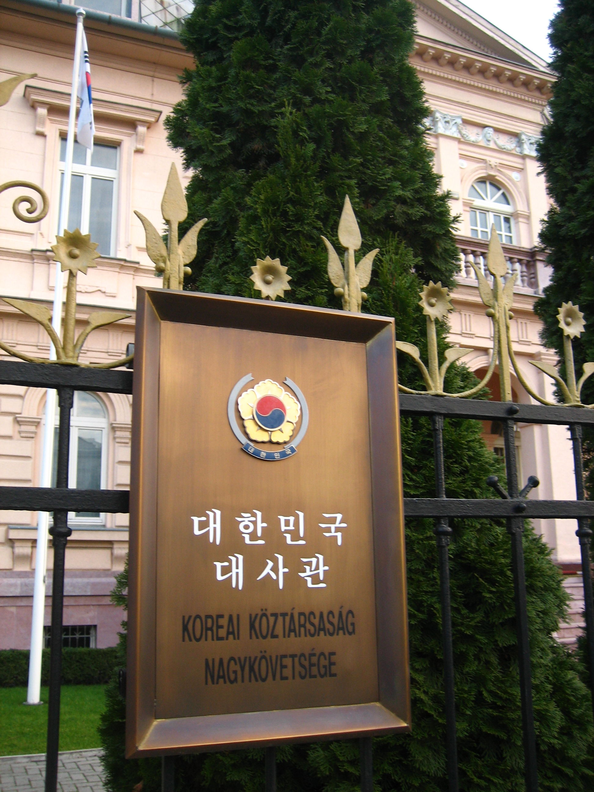 Embassy of South Korea in Budapest